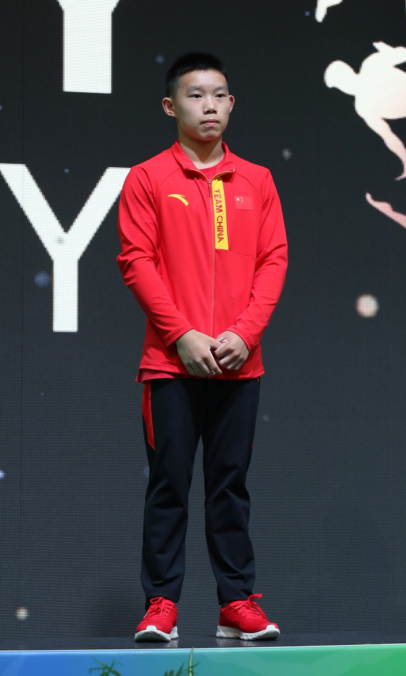 Parallel bars victory ceremony during the boys' apparatus finals at the 1st FIG Artistic Gymnastics Junior World Championships on 30 June 2019 in Győr, Hungary. Depicted: Haonan Yang.